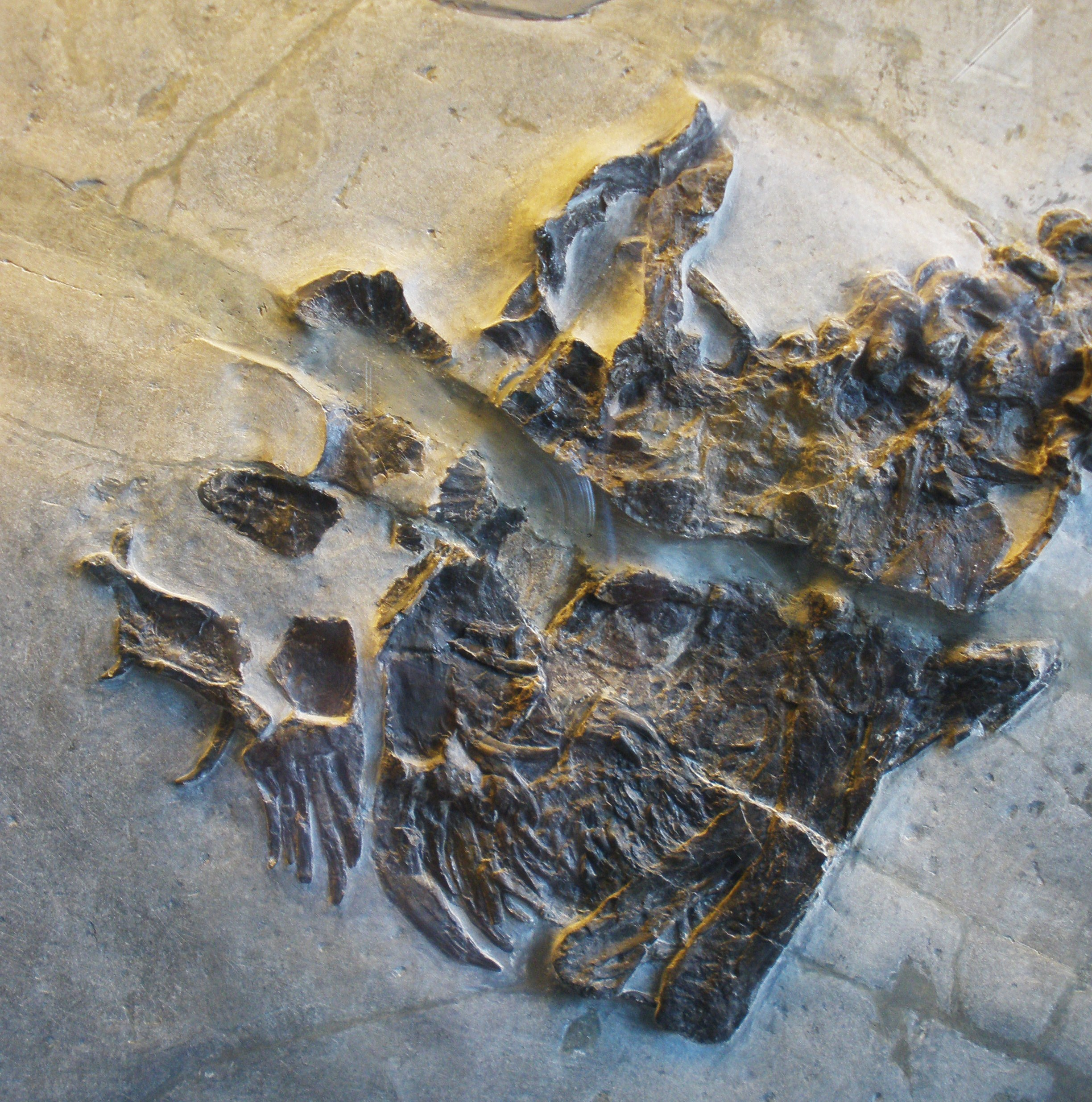 fossil of Helveticosaurus